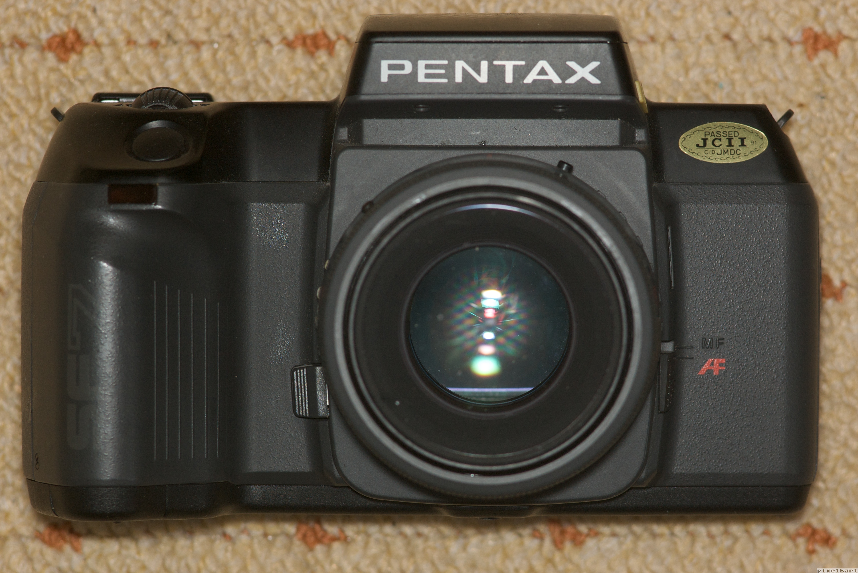 Pentax SF7 (SF10 in USA) SLR camera. Однообъективная зеркальная камера Pentax SF7 (SF10 в США).